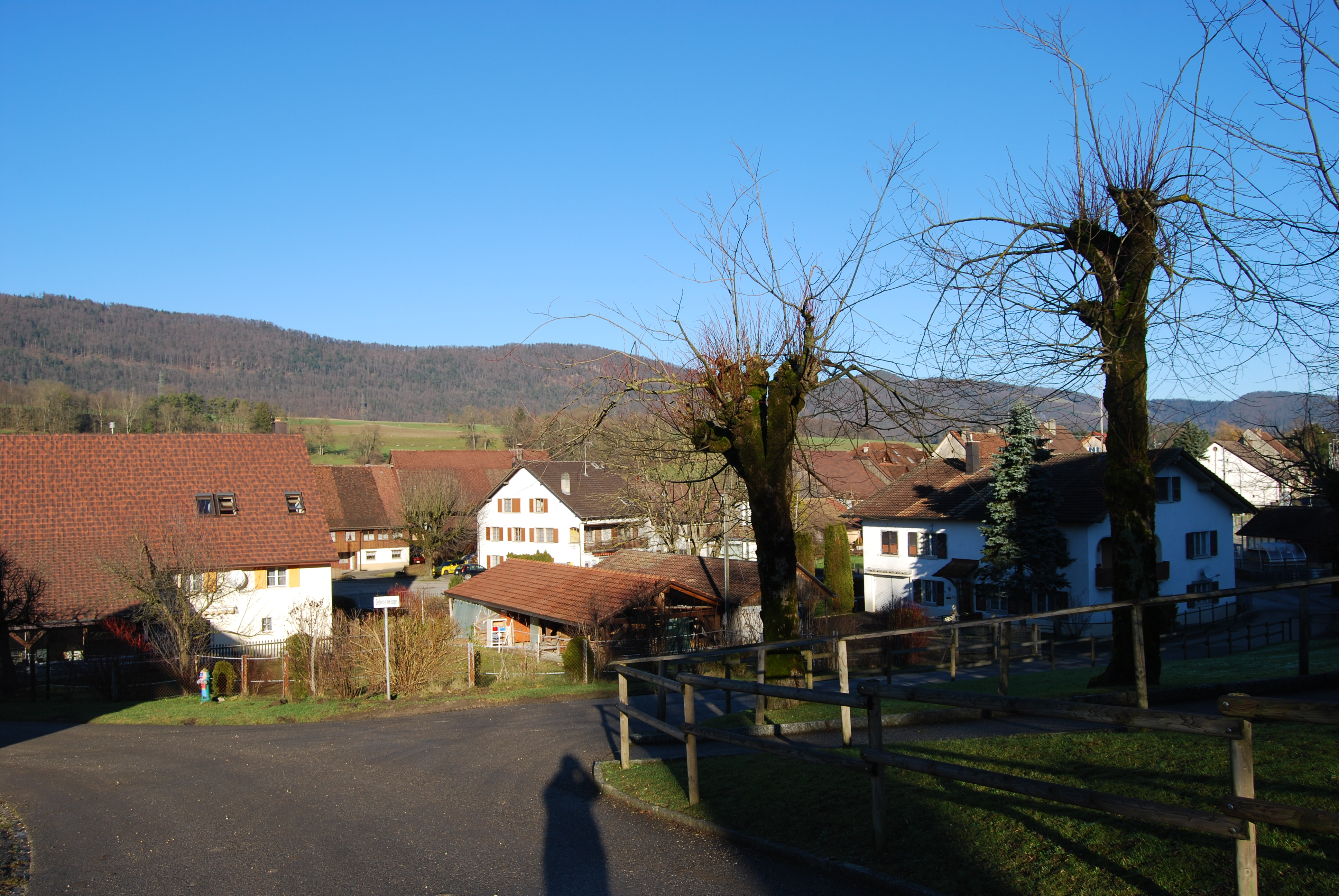 Courchapoix, canton of Jura, Switzerland